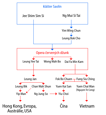 Family tree of Wing Chun